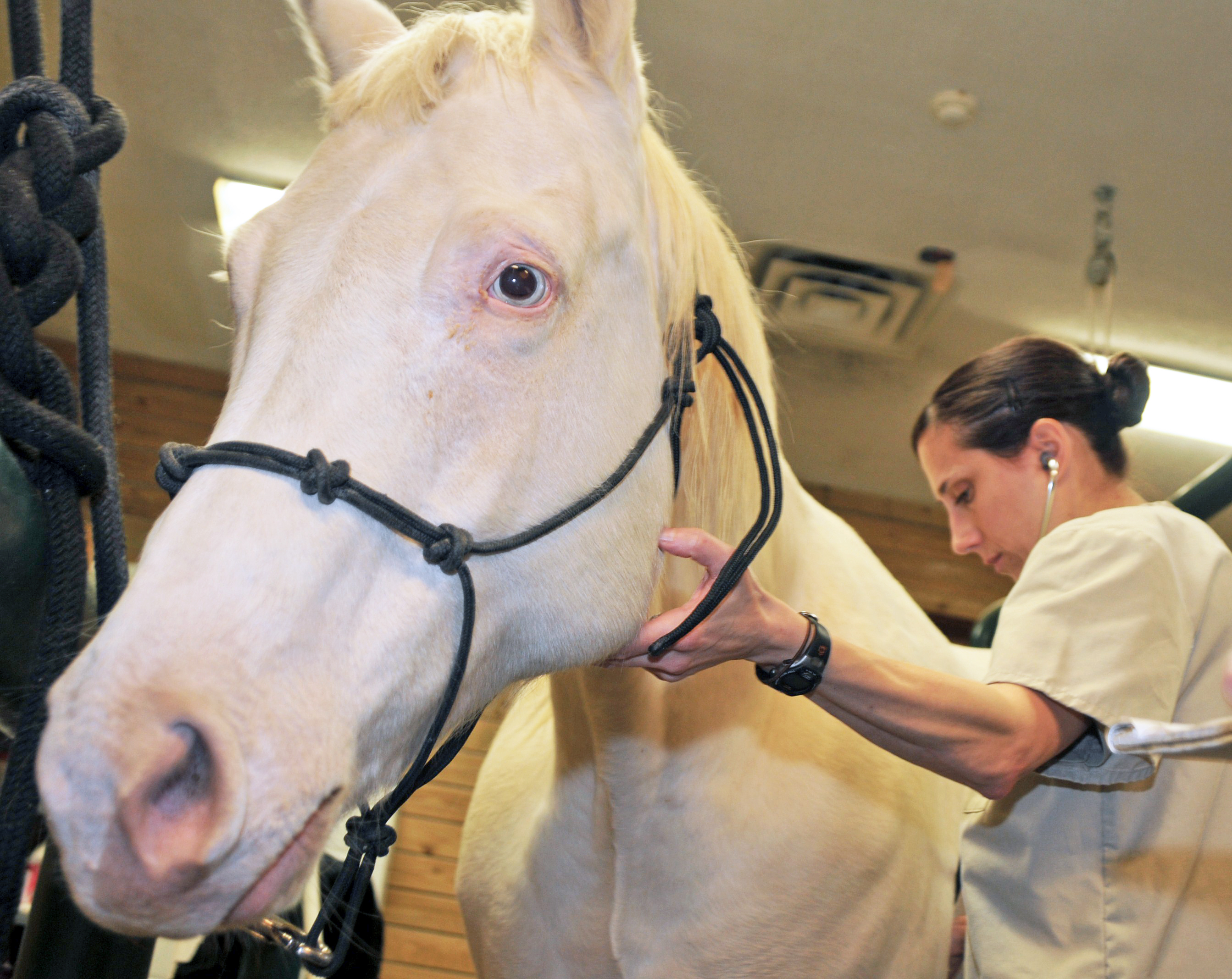 Maj. Lisa Barden, veterinarian, 3rd U.S. Infantry Regiment (The Old Guard), checks the vitals of Freedom, an eight-year-old Camarillo white horse from McAlester, Okla., as part of its initial health exam at the Caisson Barn, Nov. 22, at Joint Base Myer-Henderson Hall, Va.